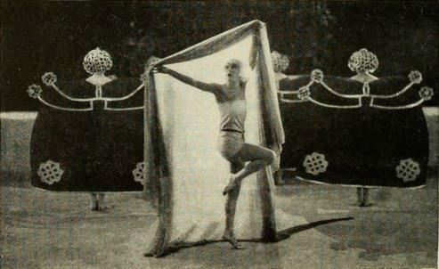 Still with Alla Nazimova from the American drama film Salomé (1923), on page 54 of the September 1922 Photoplay.